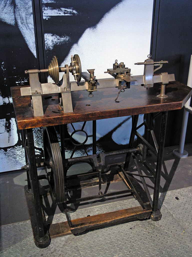 Maudslay Treadle Lathe Triangular section metal bed. Ornate frame, wooden table, large flywheel, wooden treadle. Made by Maudslay of London, England. Editing undertaken: Shadows and Highlights, Auto Levels, Unsharp Mask